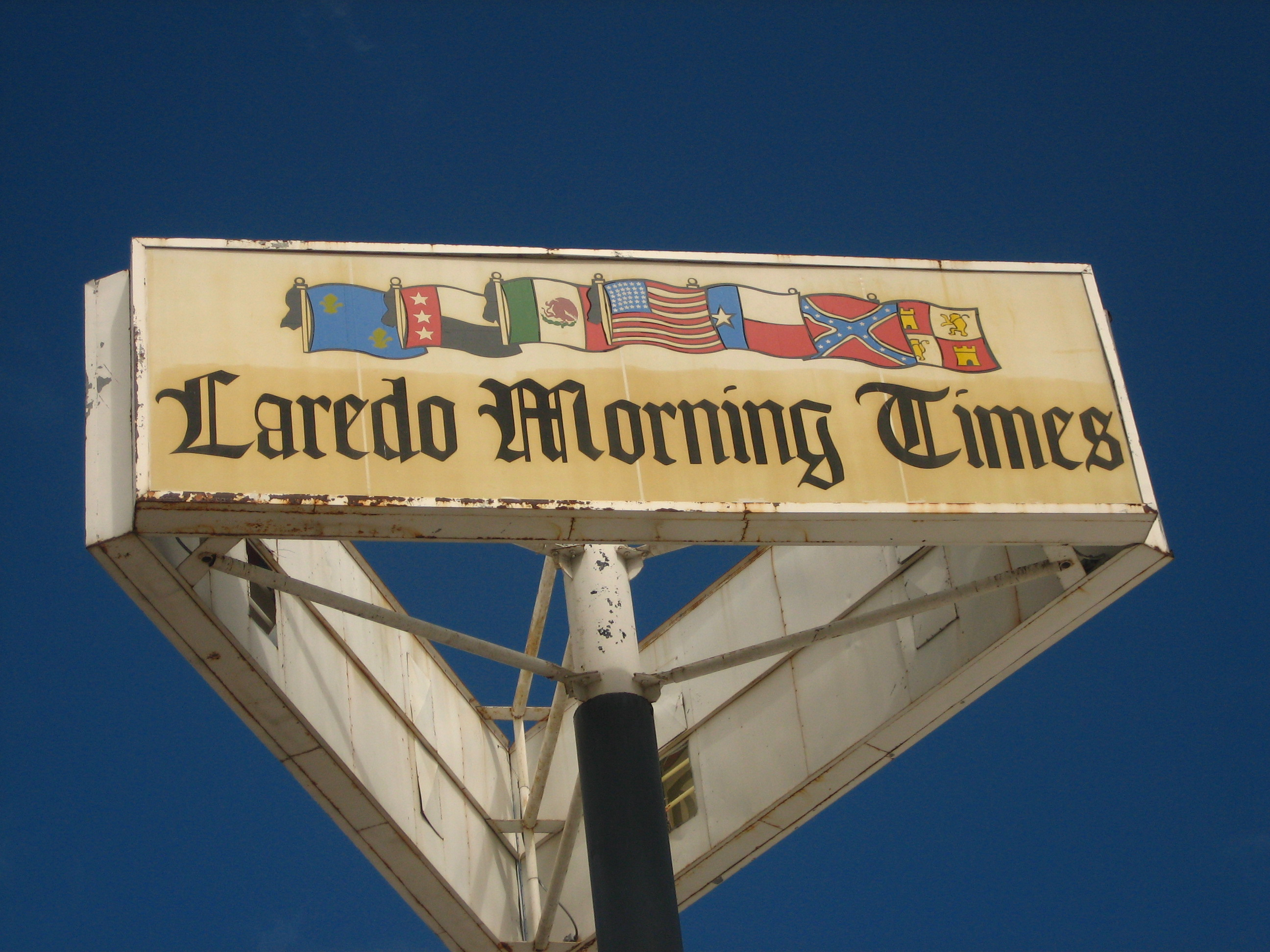 I took photo on Oct. 23, 2008.Billy Hathorn (talk) 19:54, 23 October 2008 (UTC)